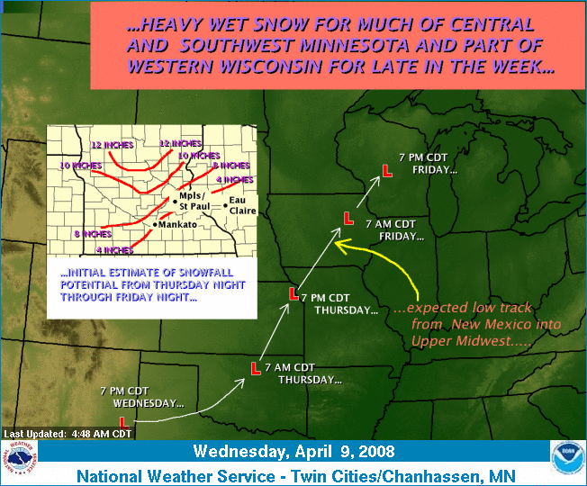 Graphic of a Panhandle Hook track